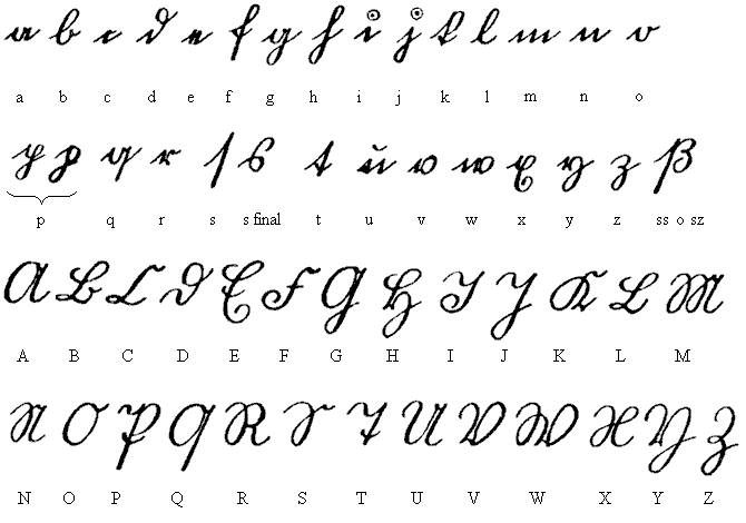 Gothic Alphabet (manuscript)